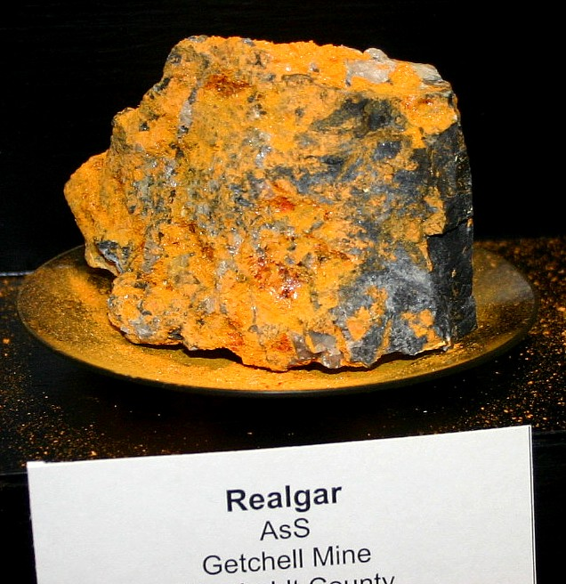 Source: Chris Ralph. This photo taken by Chris Ralph of [1], Photographer and author: photo taken by author.